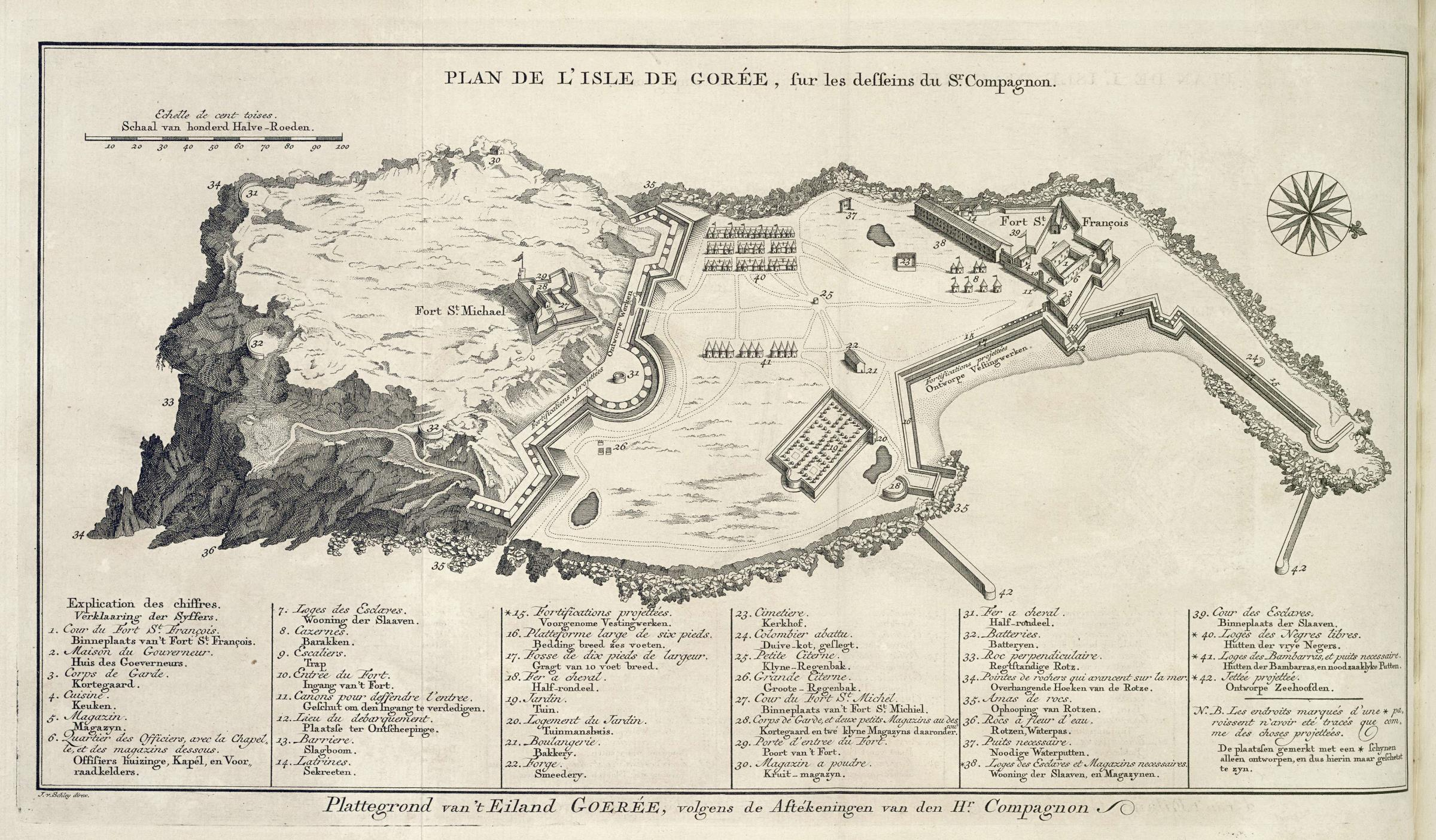 Bird's eye view of Goeree. Plattegrond van 't Eiland Goerée, volgens de Aftékeningen van den Hr. Compagnon. Plan de l'isle de Gorée, sur les desseins du Sr. Compagnon. Key: 1-42.